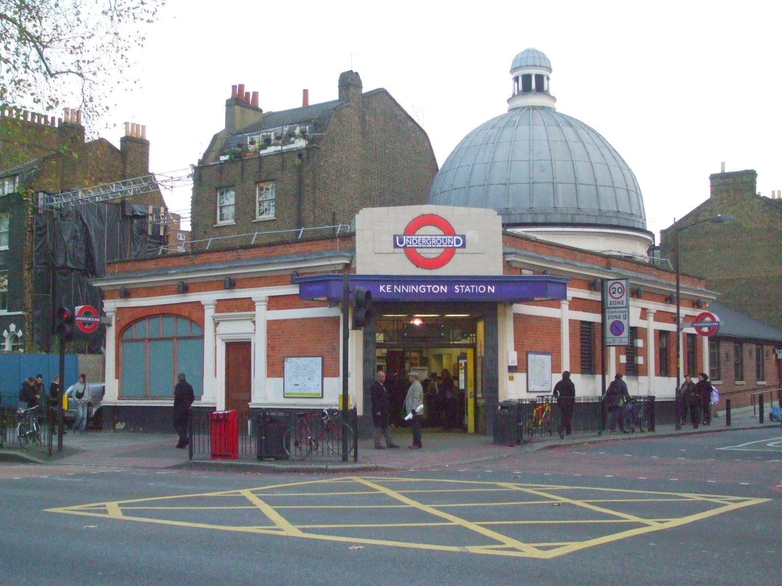 Kennington tube station on the corner of Kennington Park Road and Braganza Street, Southwark